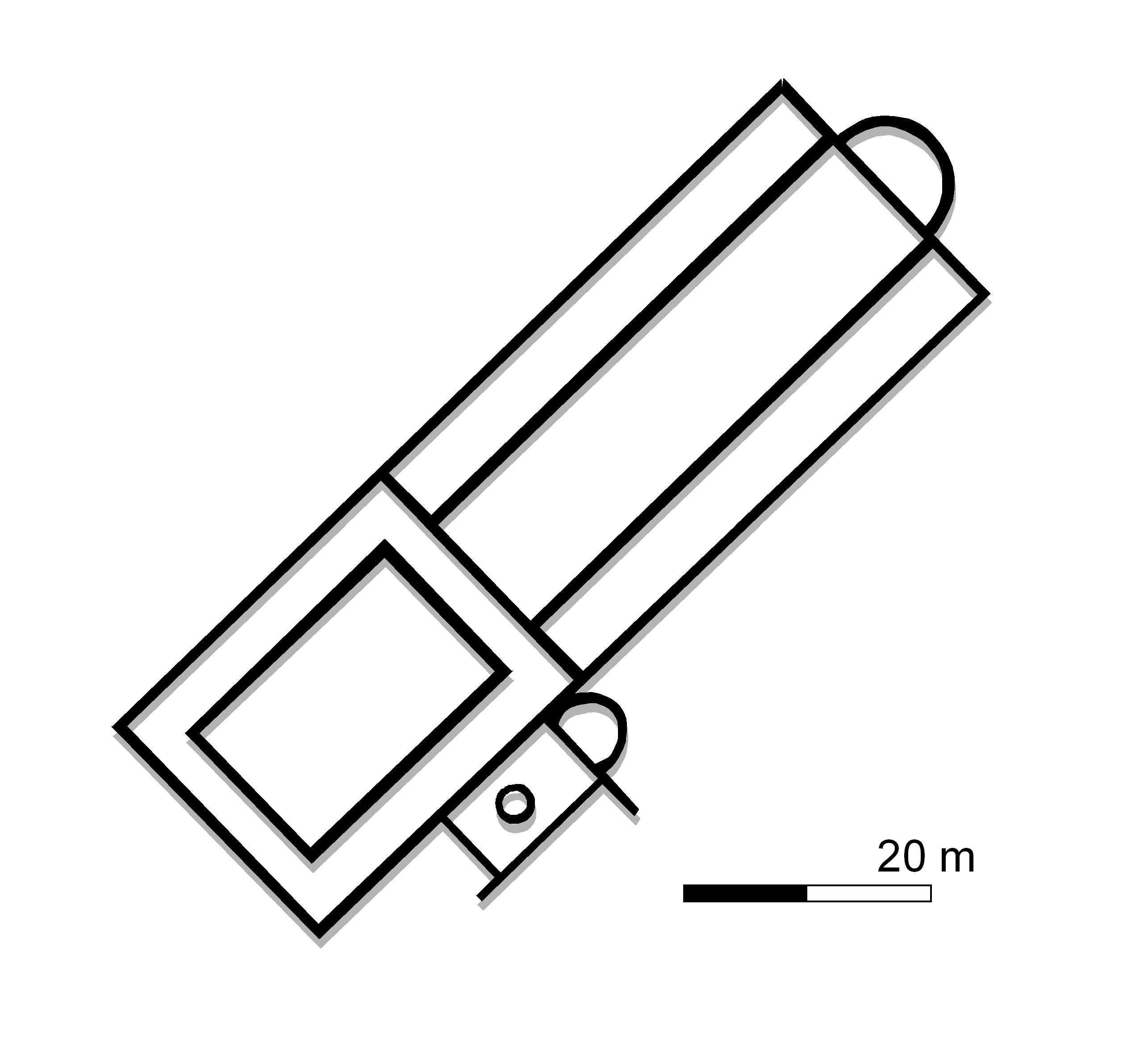 Ostia, Regio V, Basilica of Constantine, plan; redrawn from